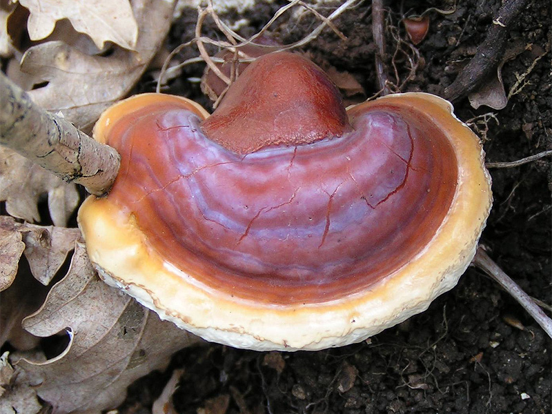 Lingzhi or Reishi